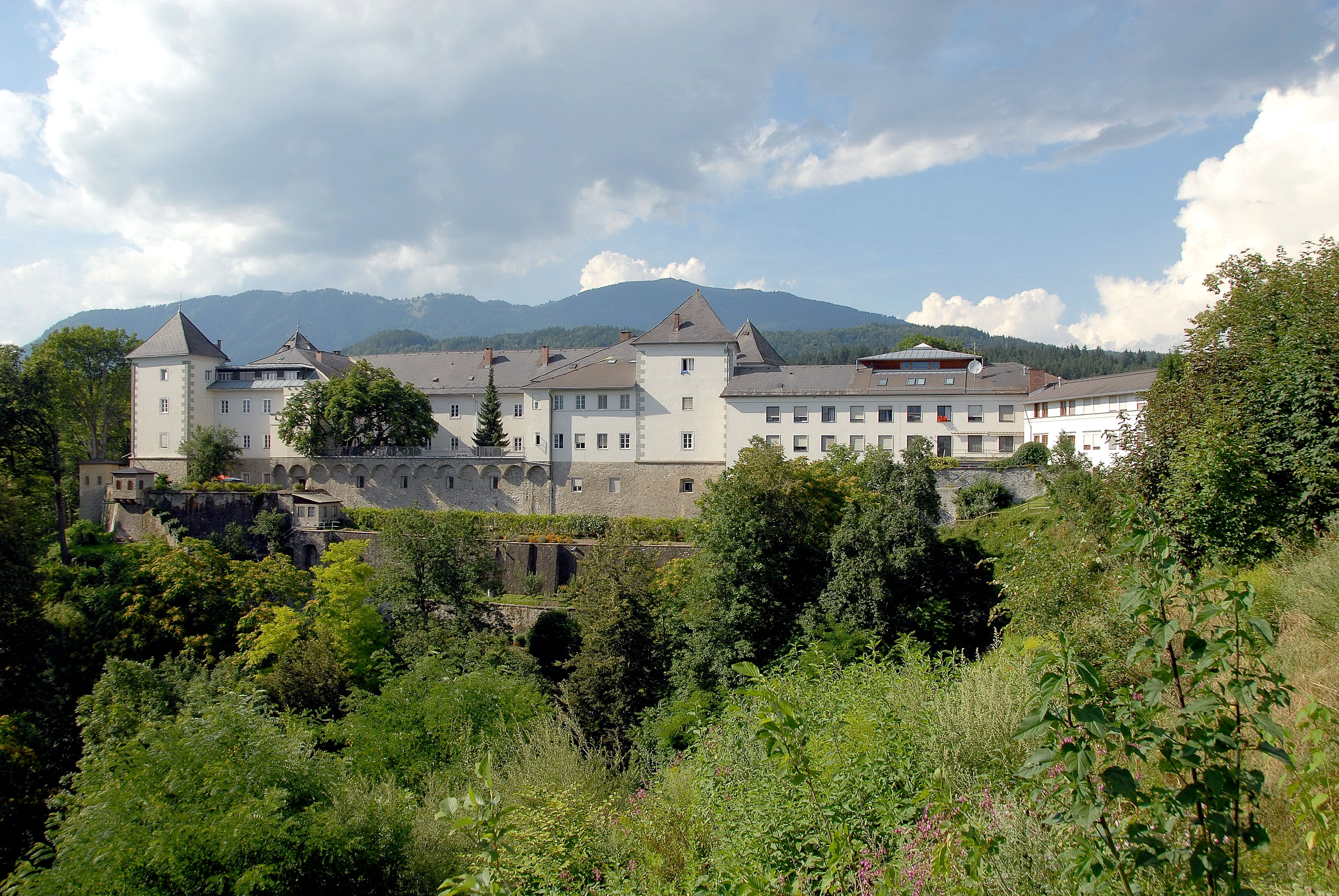 Monastery Wernberg in the community Wernberg, district Villach-Land, Carinthia, Austria